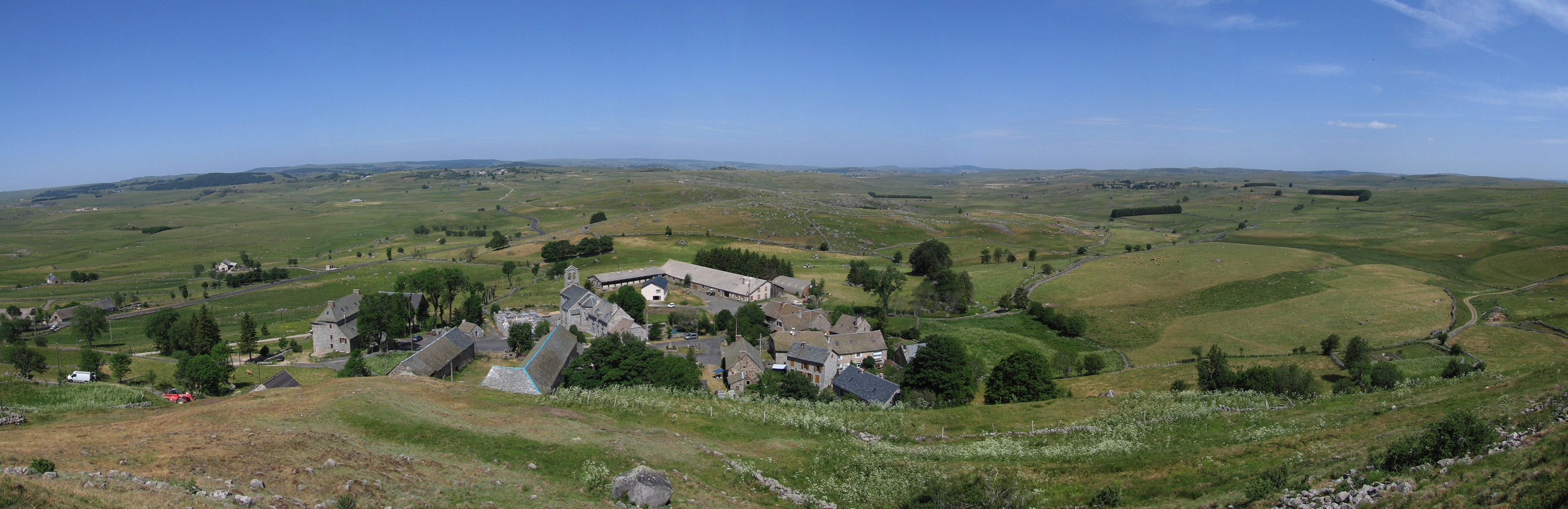 Aubrac - Marchastel